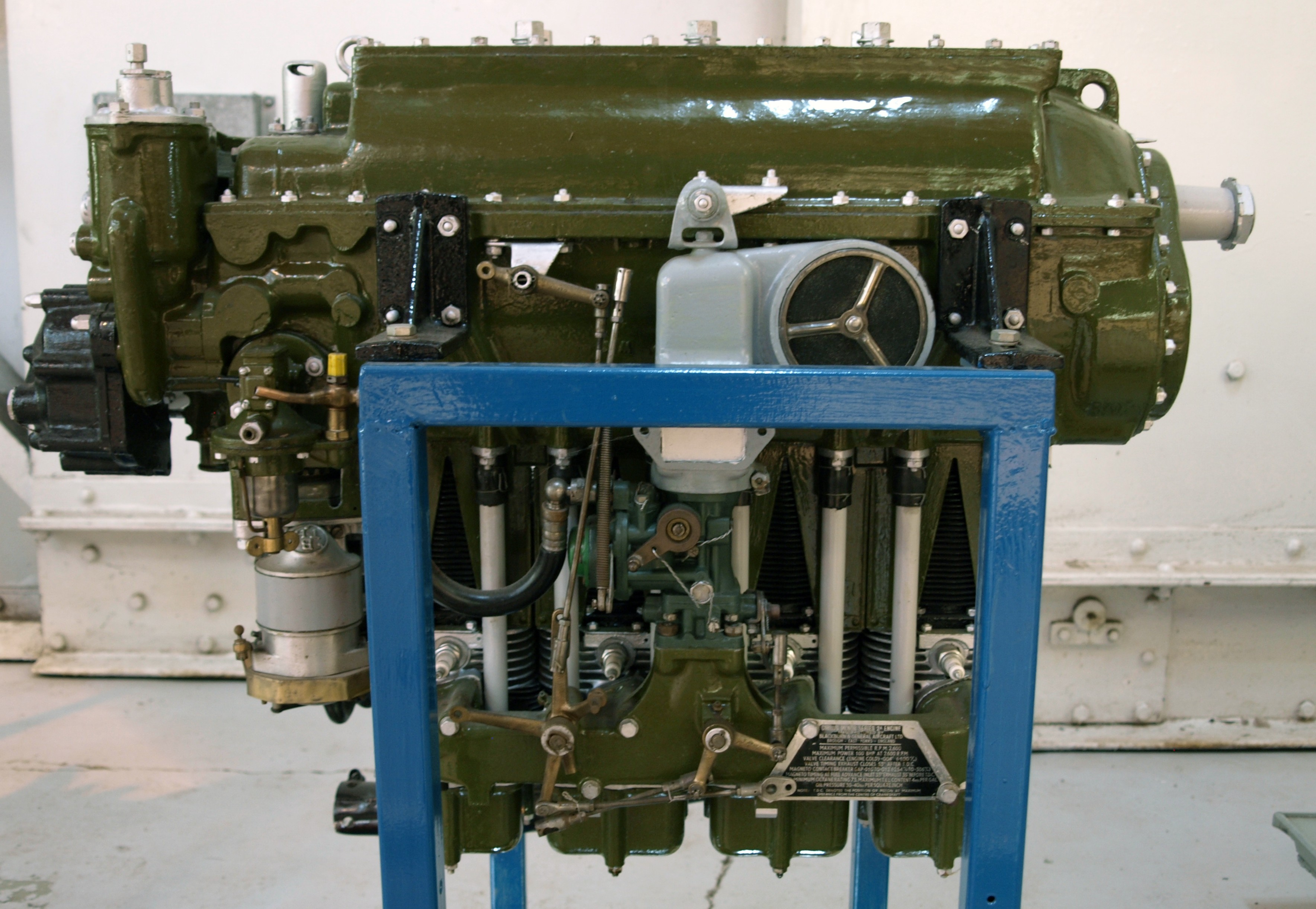 Blackburn Cirrus Minor 2A aircraft engine at the Royal Air Force Museum, Cosford.